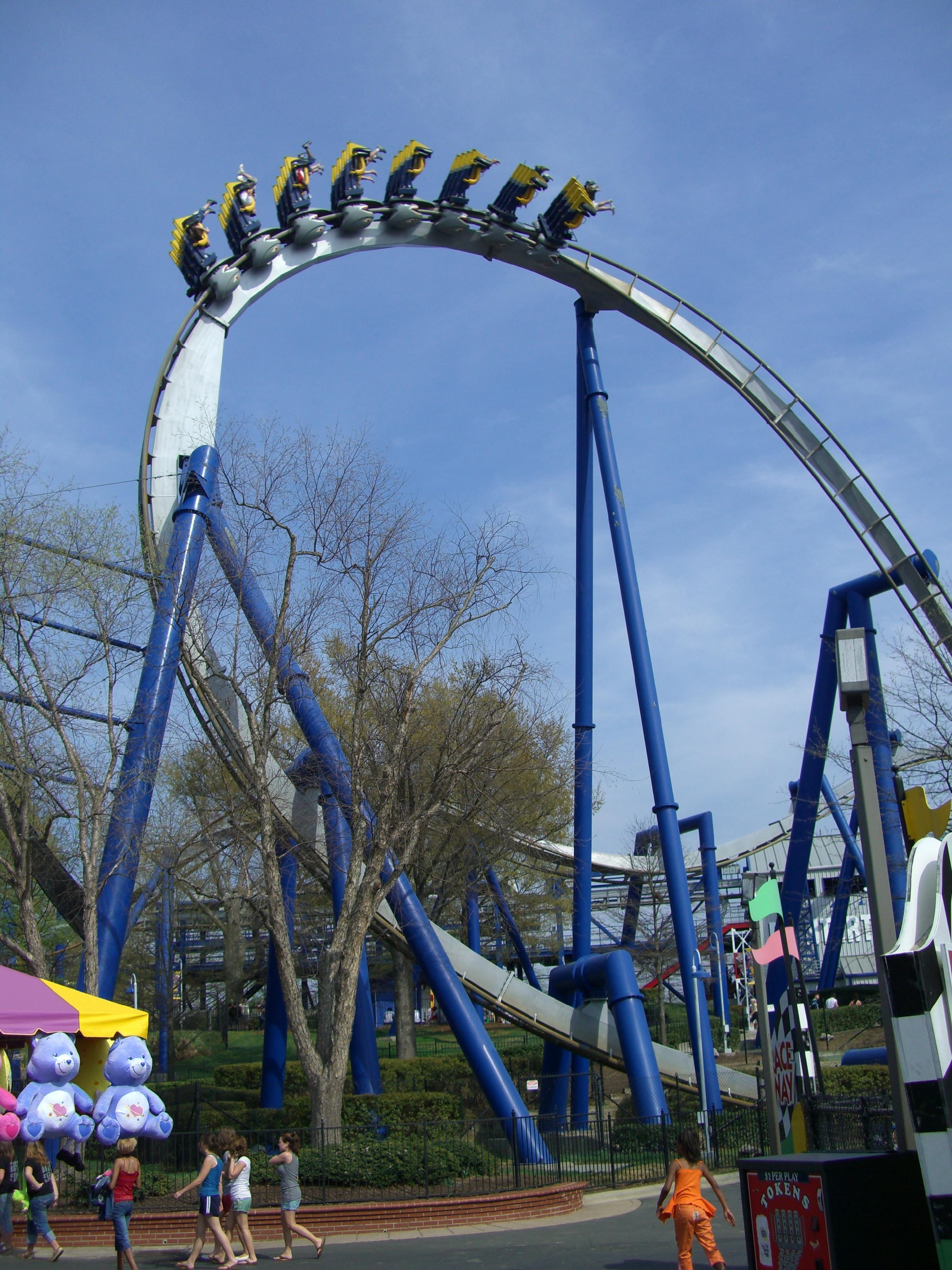 Top Gun: The Jet Coaster's yellow train maneuvering its second inversion, the immelmann.